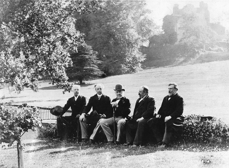 The Empire Premiers at Hawarden Castle, Wales, at the time of Queen Victoria's Jubilee. From left to right: Sir Louis Davies (former Premier of Prince Edward Island, Canadian Minister of Marine and Fisheries at time of photo, and later Chief Justice of the Supreme Court of Canada), Sir Wilfrid Laurier (Canadian Prime Minister), Right Honourable W. E. Gladstone (former British Prime Minister, and the owner of the Hawarden Castle estate), Right Honourable George Reid (Premier of New South Wales, later Prime Minister of Australia) and Right Honourable Richard Seddon (Prime Minister of New Zealand).From The Life and Work of Richard John Seddon (Drummond, James; Whitcombe and Tombs Limited, 1907) (Licensed under a Creative Commons Attribution-Share Alike 3.0 New Zealand Licence):One of the most interesting features of [Seddon's] visit [to the United Kingdom] was his interview with Mr. Gladstone at Hawarden. He went with Sir Wilfrid Laurier and Mr. Reid, the party being taken in charge by Lord and Lady Carrington. The guests were shown over the library, and had afternoon tea under a shady old hawthorn tree in the gardens.There is no incident in Mr. Seddon's experiences in England that left a deeper impression upon him than this visit to Hawarden. Mr. Gladstone expressed the pleasure felt by him, on his part, at the presence of statesmen who were helping to build up the Greater Britain that had arisen over the seas. Politics were not touched upon during the visit; the Premiers were the guests of the nation as a whole, and in that spirit Mr. Gladstone received them. [...]Mr. Seddon, like Sir Wilfred Laurier and Mr. Reid, was greatly interested in the peaceful and happy domestic circumstances of Mr. Gladstone's life in retirement, and by his great physical vigour and his unfailing mental alertness. Mr. Gladstone's kindness prompted him to accompany them to the station when the visit terminated, a mark of courtesy that they highly appreciated.